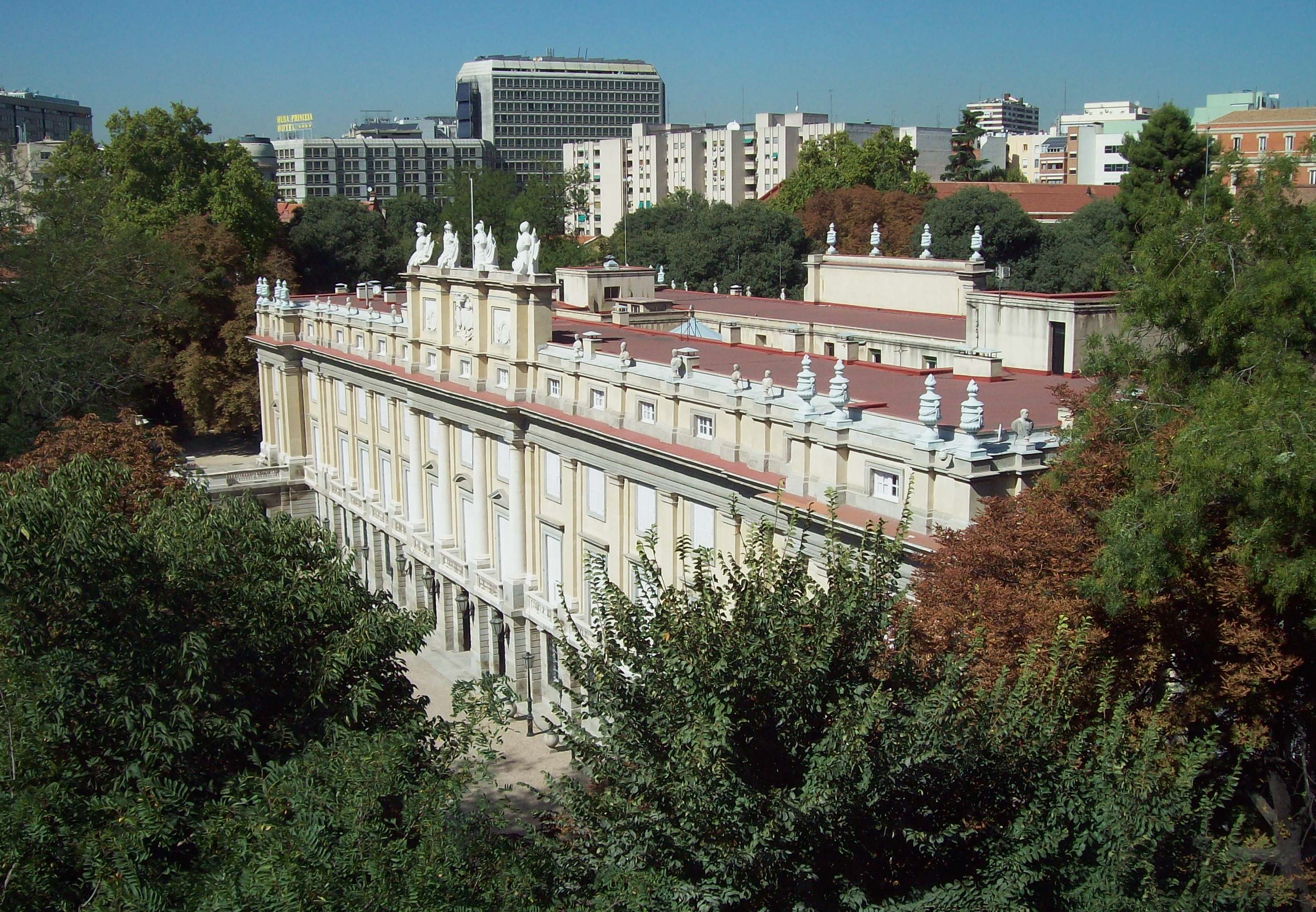 North-east façade of Liria Palace in Madrid (Spain), seen from Cuartel del Conde-Duque.